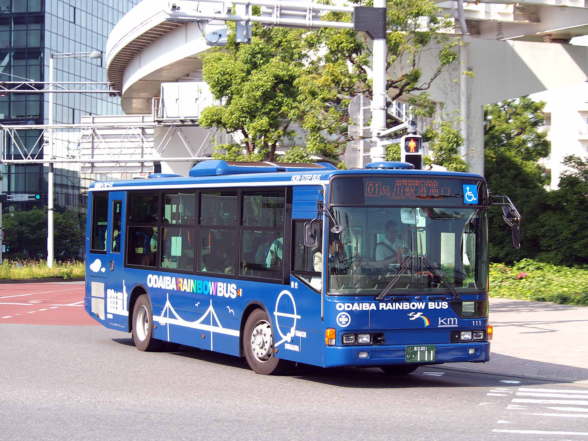 km Flower Bus's Aero Stars converted to Odaiba Rainbow Bus for abandoned km Flower bus on May 2017. License plate: TKA201 I0111 Place: Daiba, Minato Ward, Tokyo Japan